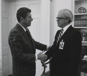 Ronald Reagan greets Michael H. Newlin, Ambassador to Algeria